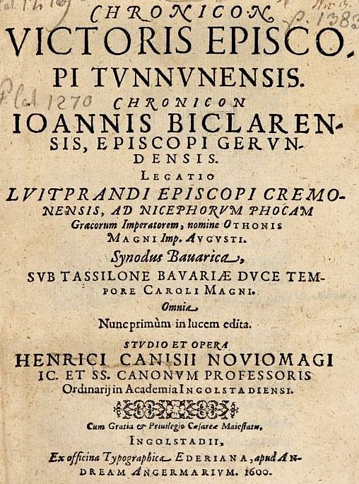 Titelblatt eines historischen Werkes von Heinrich Canisius, 1600